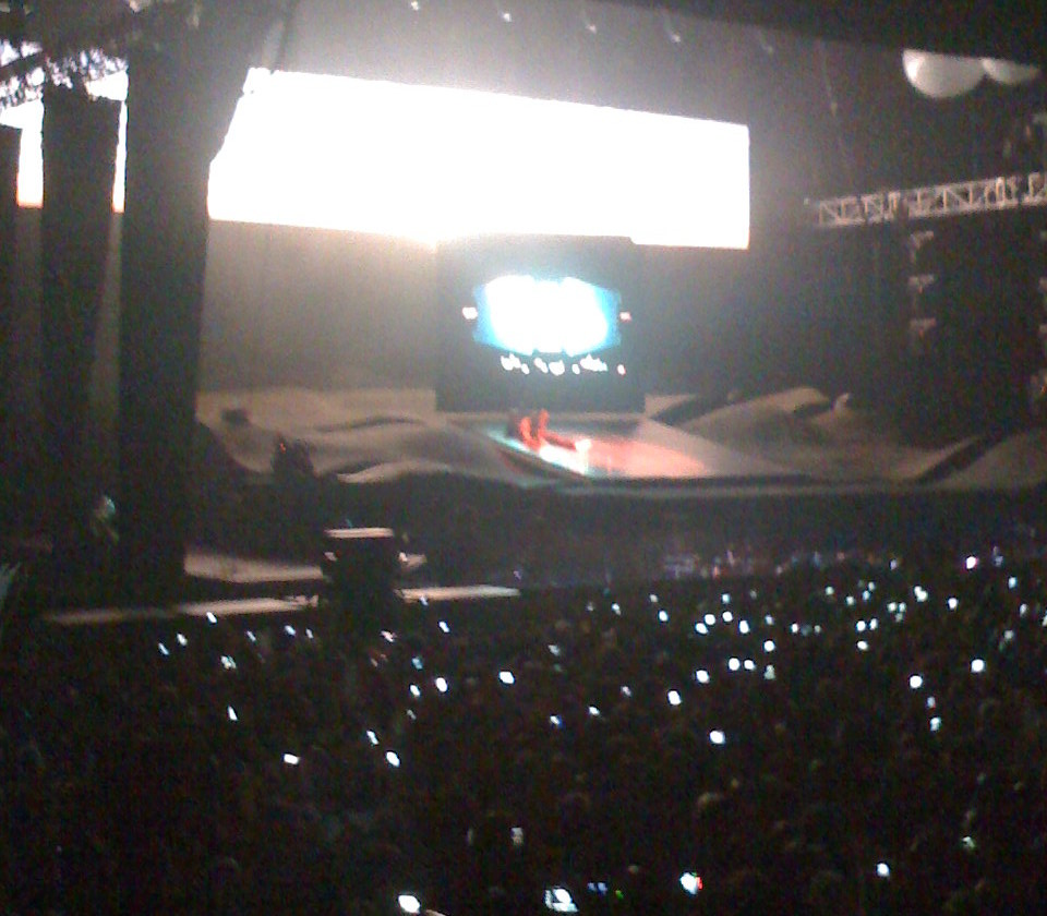 Kanye West performing "Good Morning" at the Bercy Arena in Paris, France on November 20, 2008 during the Glow in the Dark Tour.